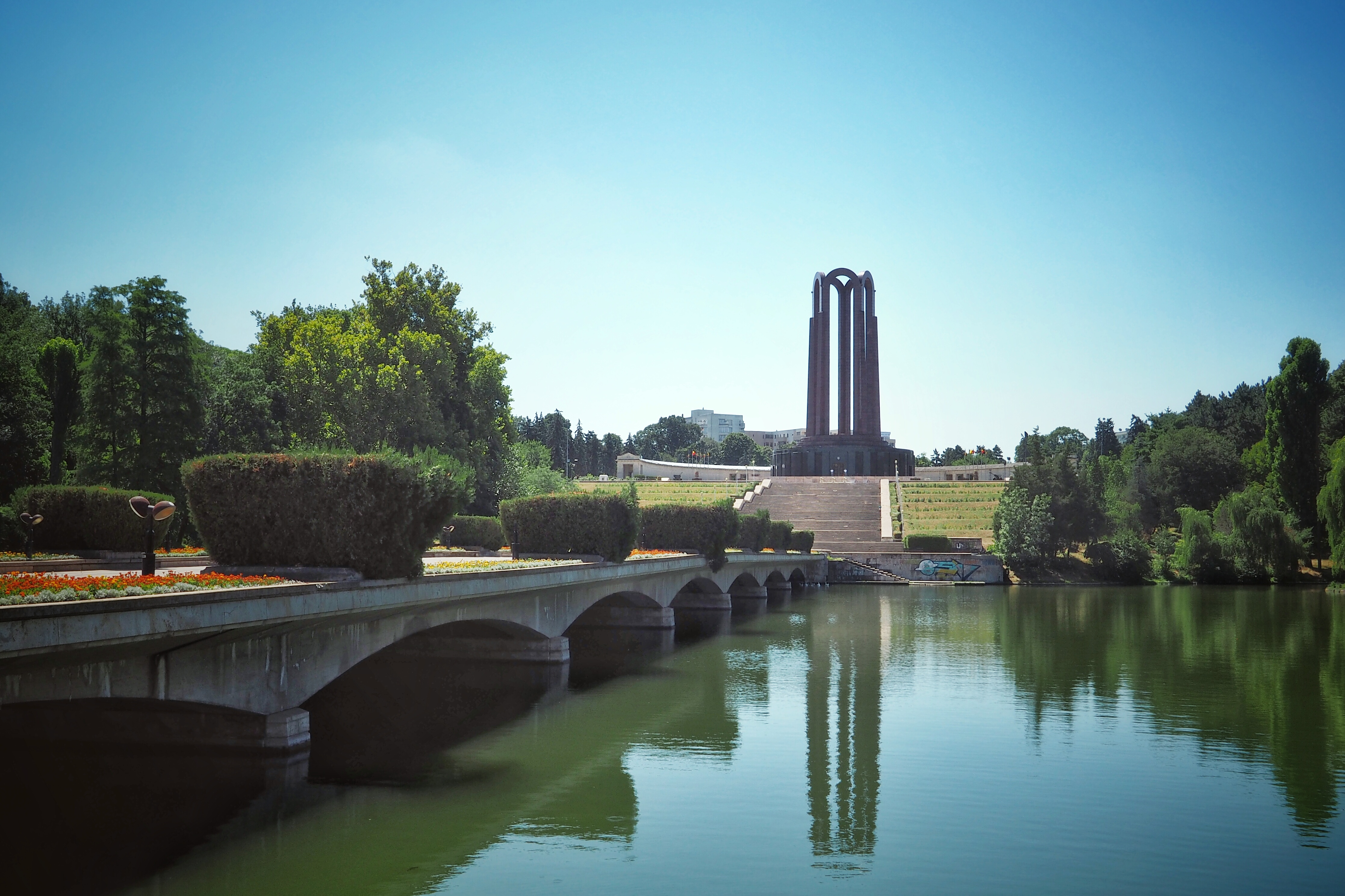 Bucharest, Romania This image back in 1935: infobdb.ro/wp/wp-content/uploads/2014/02/01.jpg Find out more about Bucharest: DiscoverBucharest